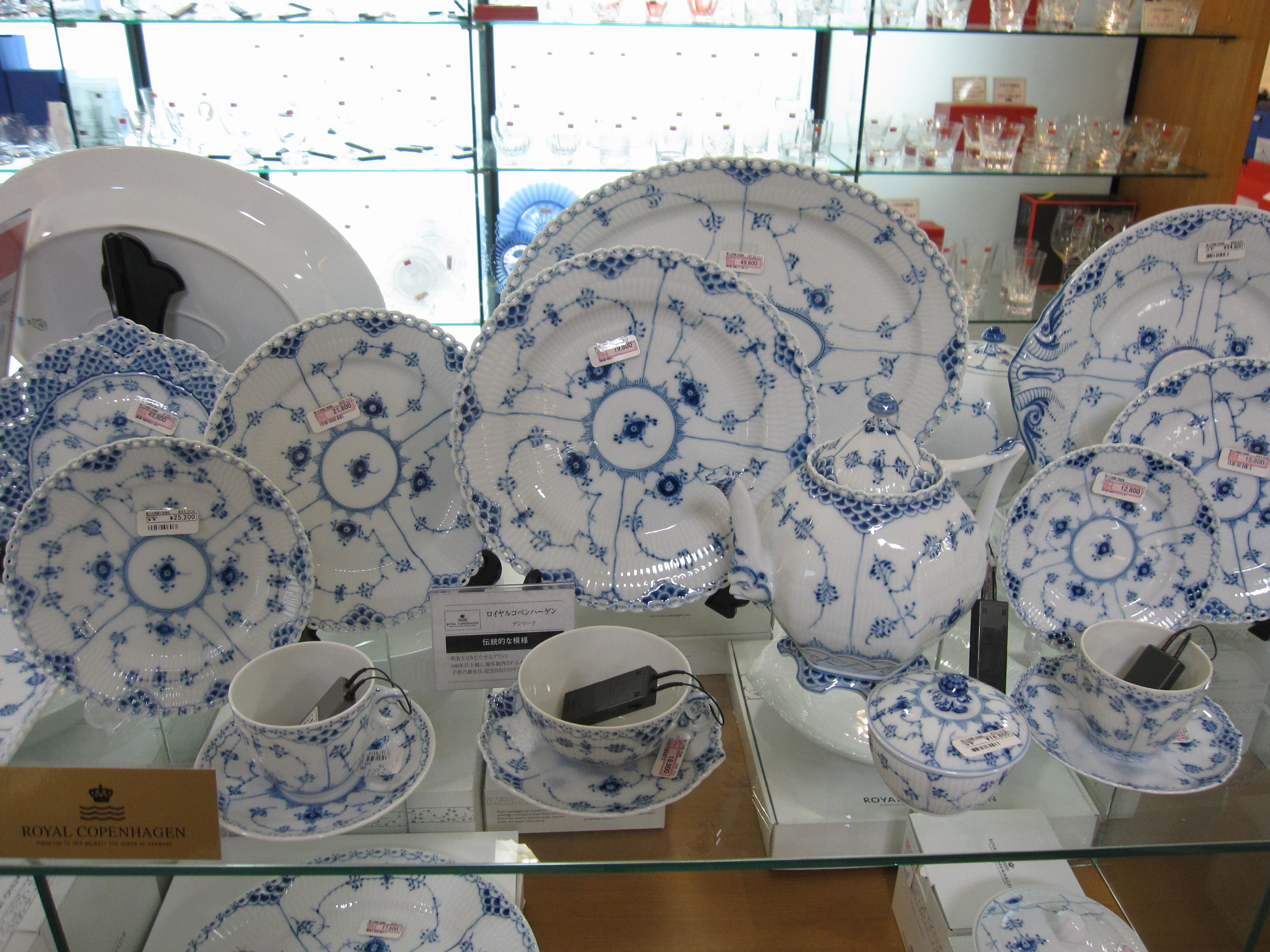 Royal Copenhagen blue and white porcelain plates. Pattern: Musselmalet